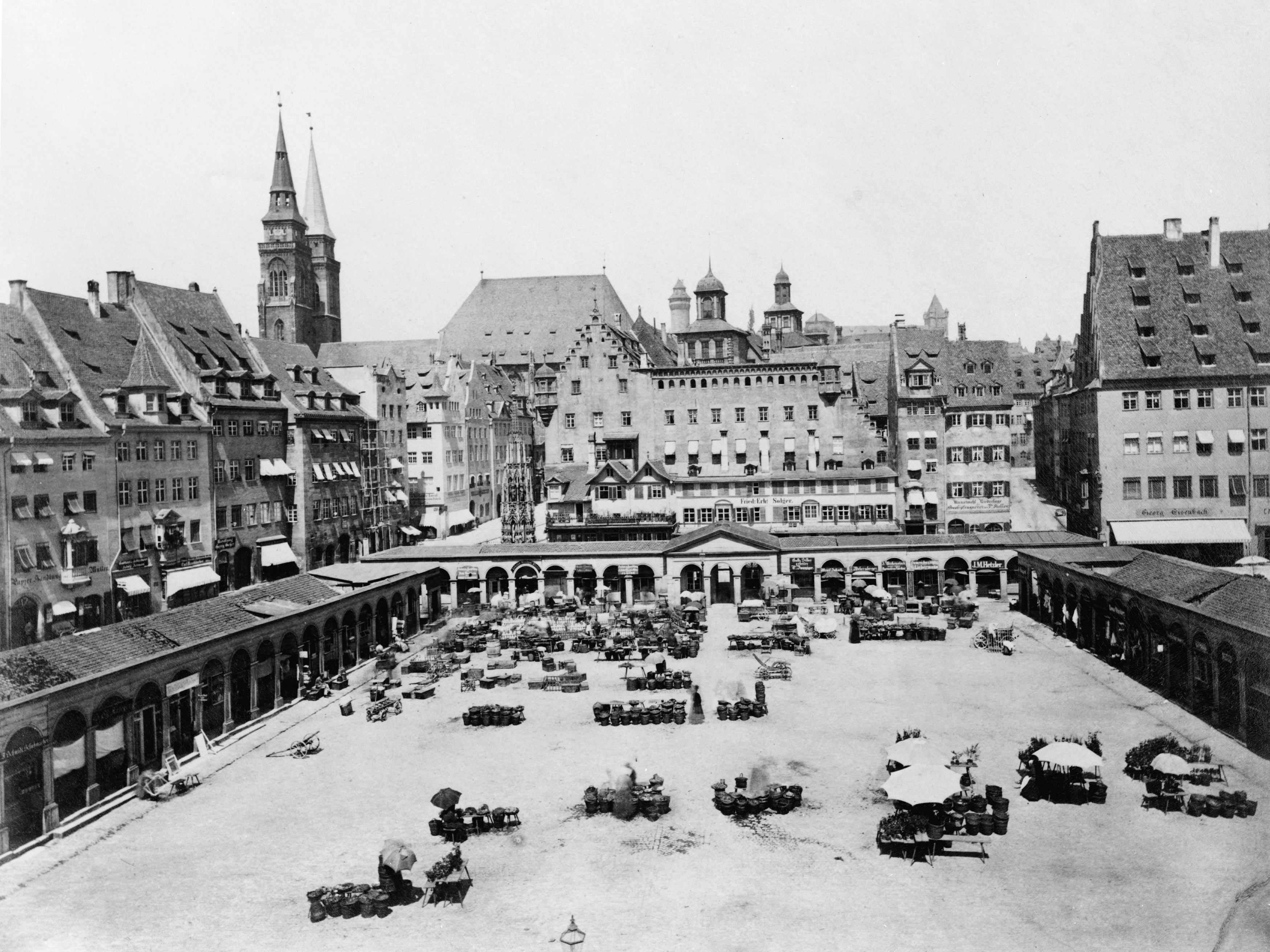 View of Nuremberg’s Hauptmarkt with the Colonnades.